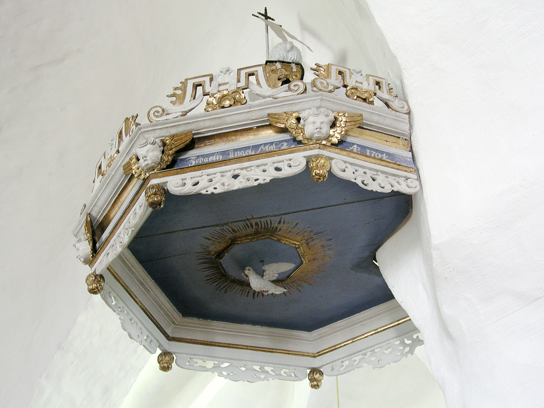 Drothems kyrka, taket på predikstolen med duva. Pulpit - roof. The photo was taken the 30 of June 2003 by Håkan Svensson (Xauxa).